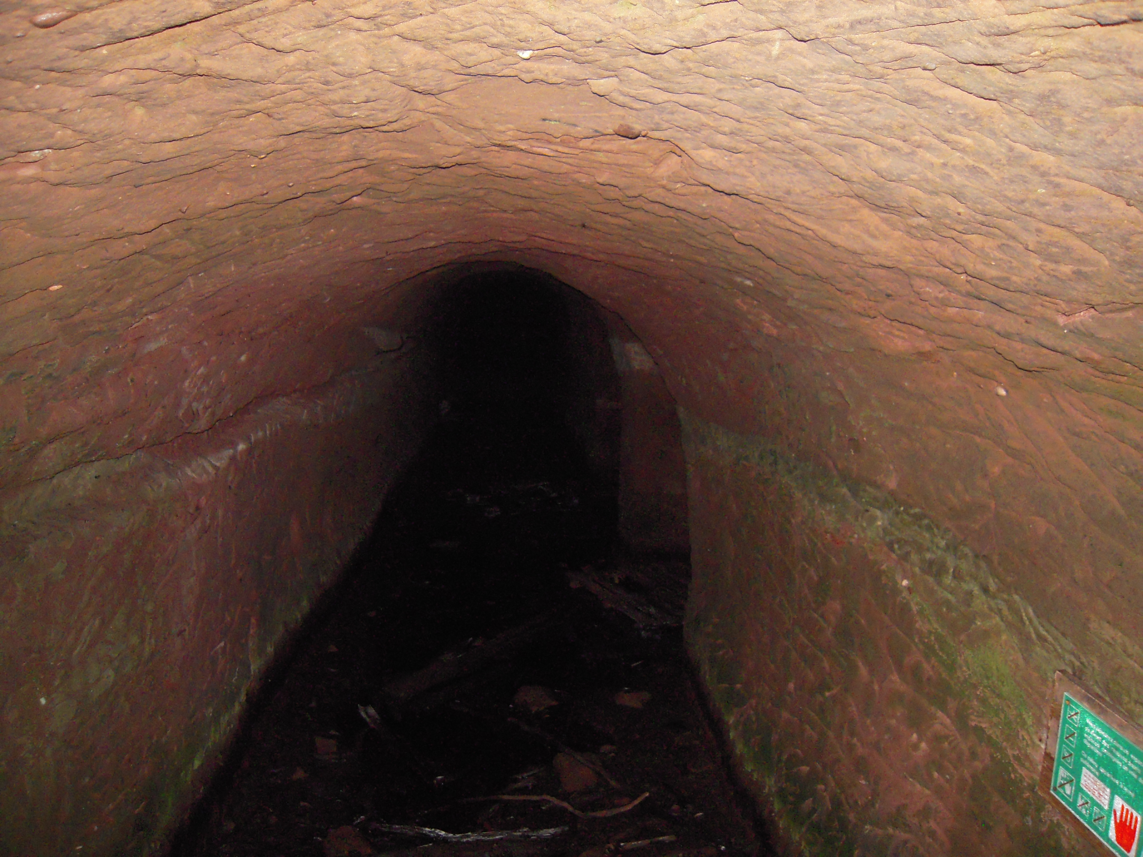 Underground passageways of the Ramstein Castle in Baerenthal (Moselle, France). .